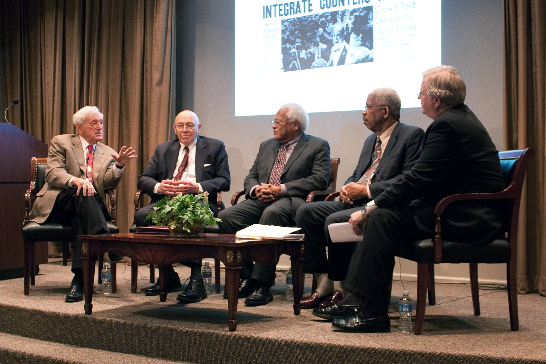 Panel discussion at Vanderbilt University on media coverage of the Nashville sit-ins. From left to right: John Seigenthaler, George Barrett, James Lawson, Rip Patton, and the discussion moderator.